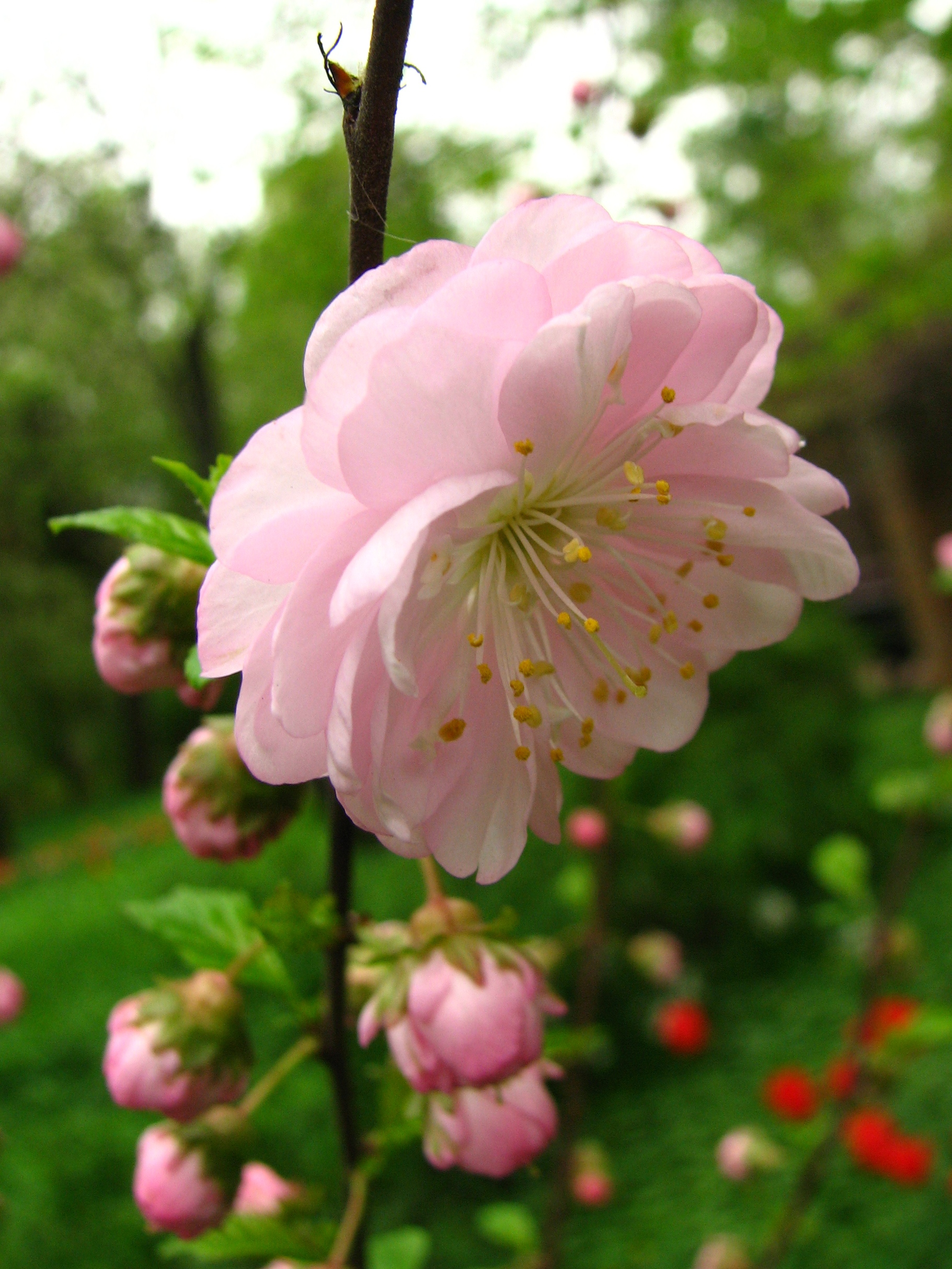 Prunus triloba flower. In the Moscow State University Botanical Garden "Aptekarsky Ogorod"